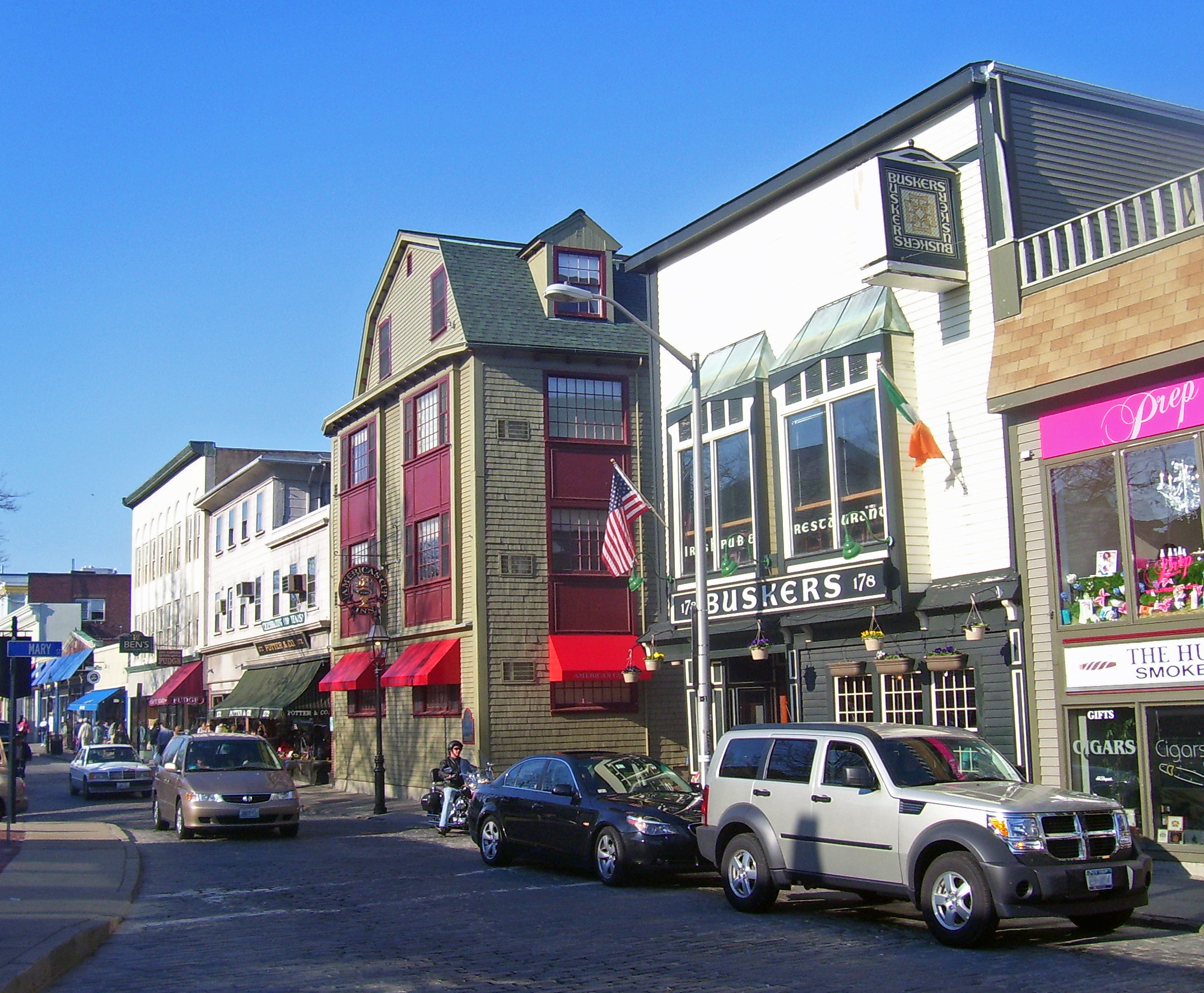 Intersection of Thames and Mary streets in the Newport Historic District, in downtown Newport, RI, USA